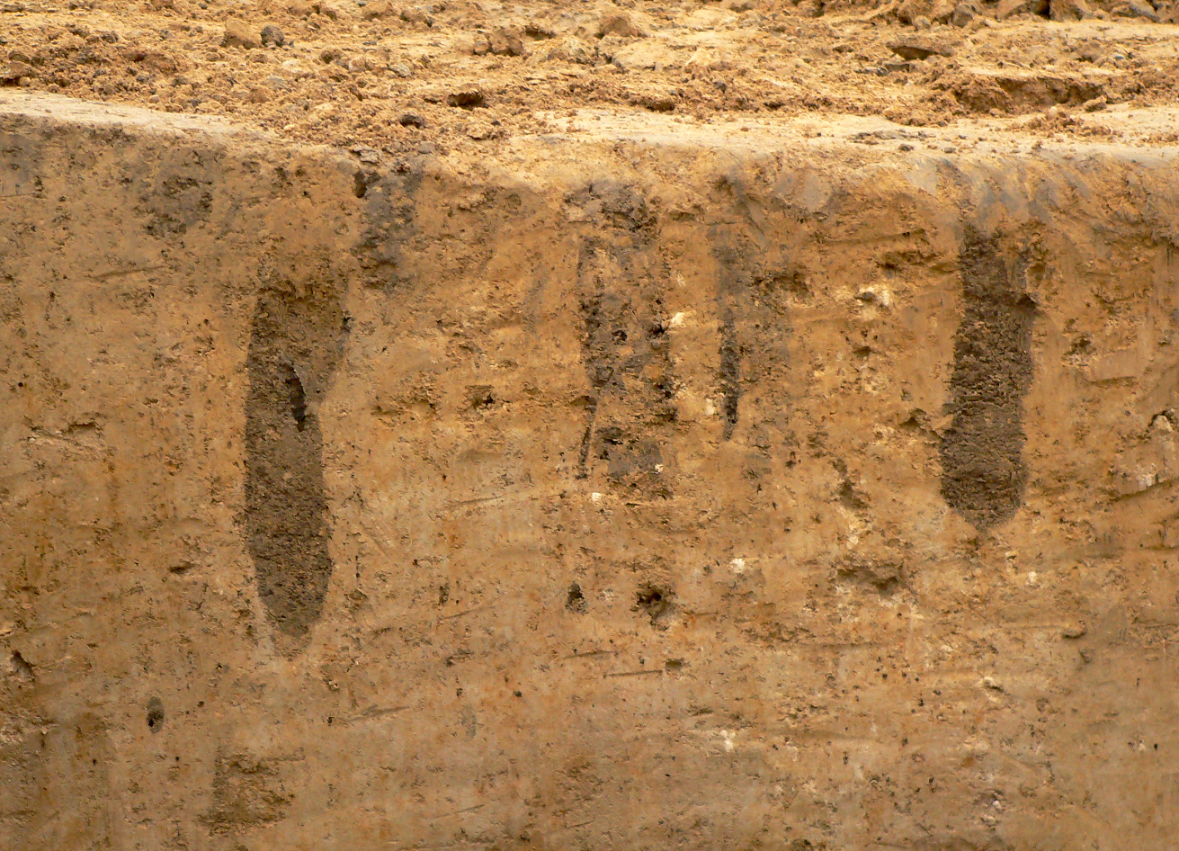 A series of more or less clearly recognizable krotovinas in loess subsoil of a Chernozem, cut in an archeological excavation site near Hildesheim, Lower Saxony, Germany